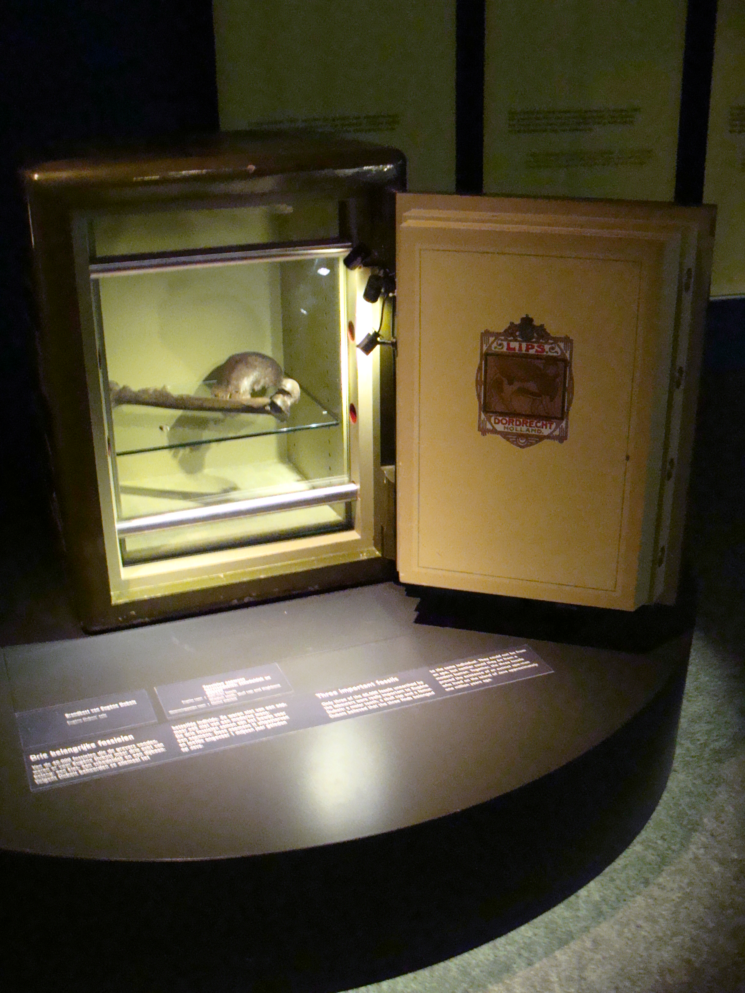 The safe of Eugène Dubois in which he the famous type specimen fossils of the Java Man, Homo erectus. It was on display at the exhibition 'Dubois' in the National Museum of Natural History 'Naturalis' in Leiden, the Netherlands.